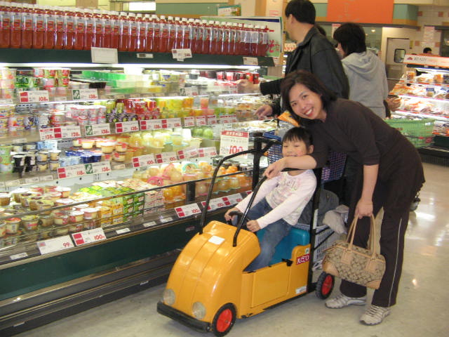 Child driving shopping cart in Japan